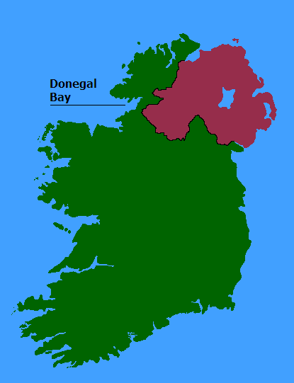 Map created with MSFT Paint. WikiDon 01:05, 10 August 2005 (UTC)